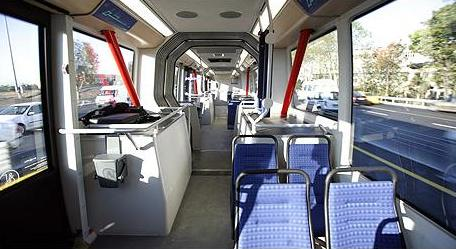 Metrobus in Istanbul, Turkey. APTS Phileas articulated bus interior.